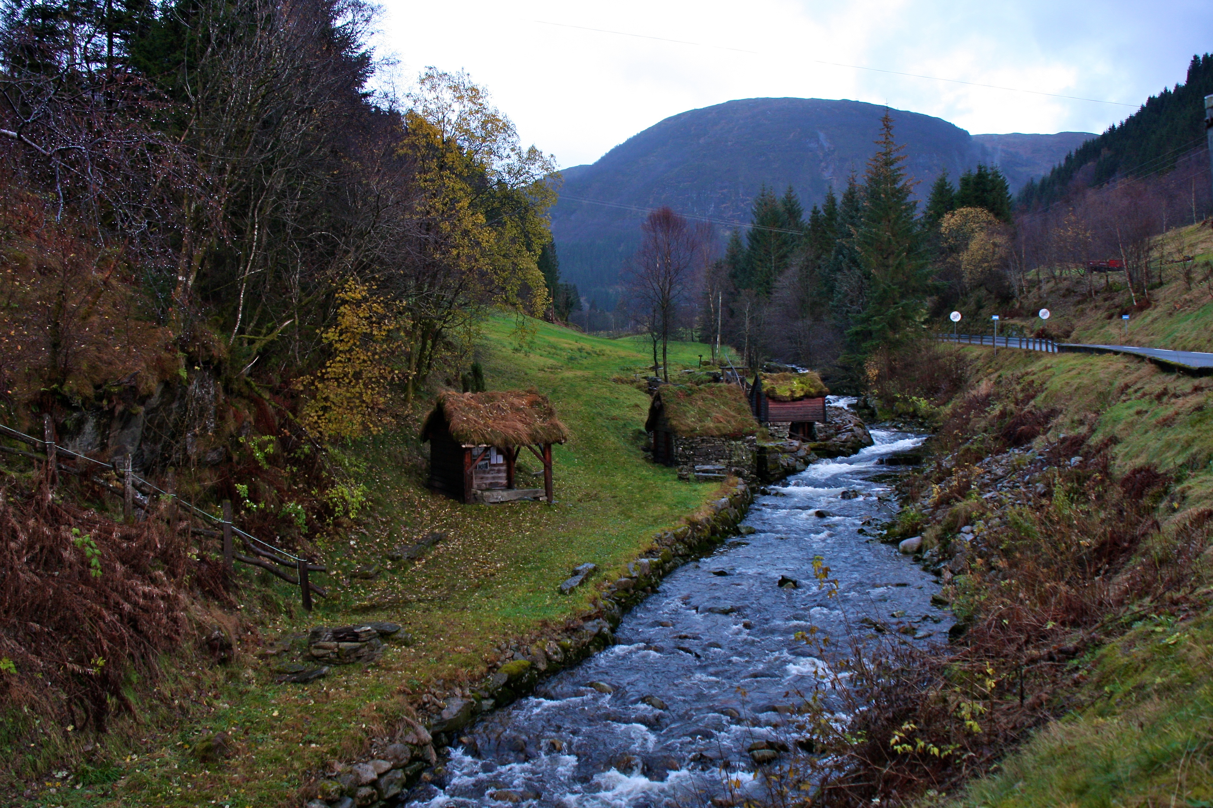 Takle in Gulen municipality, Norway.